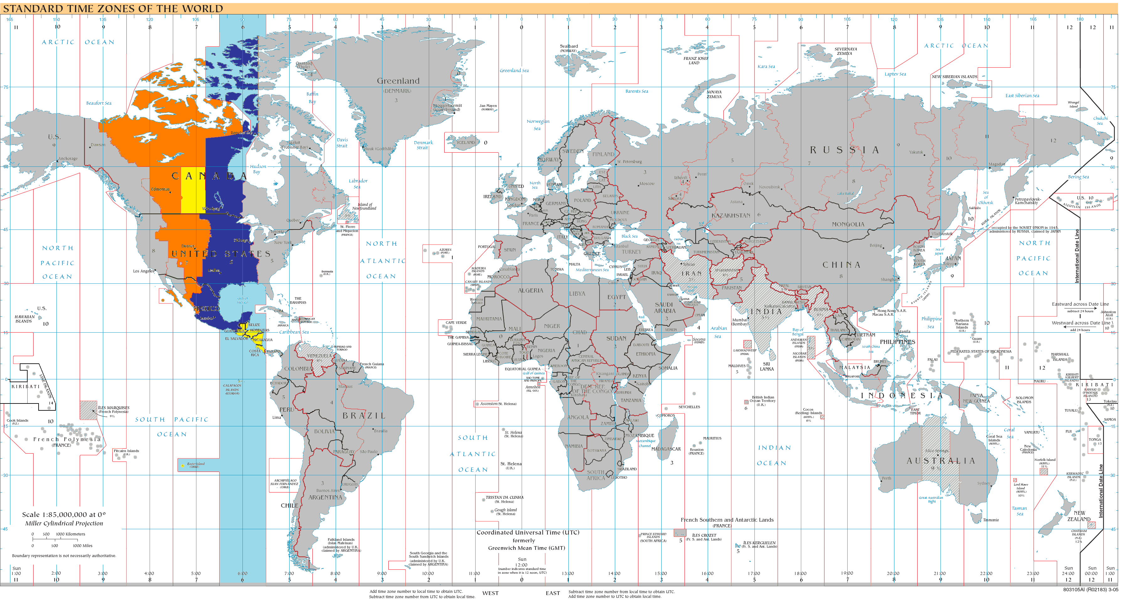 World map of time zones as of 2008, on the Miller Cylindrical Projection and with highlighted UTC-6 zone. Dark Blue - UTC-6 during Northern Winter / Southern Summer Orange - UTC-6 during Northern Summer / Southern Winter Yellow - UTC-6 all year round Light Blue - UTC-6 sea areas